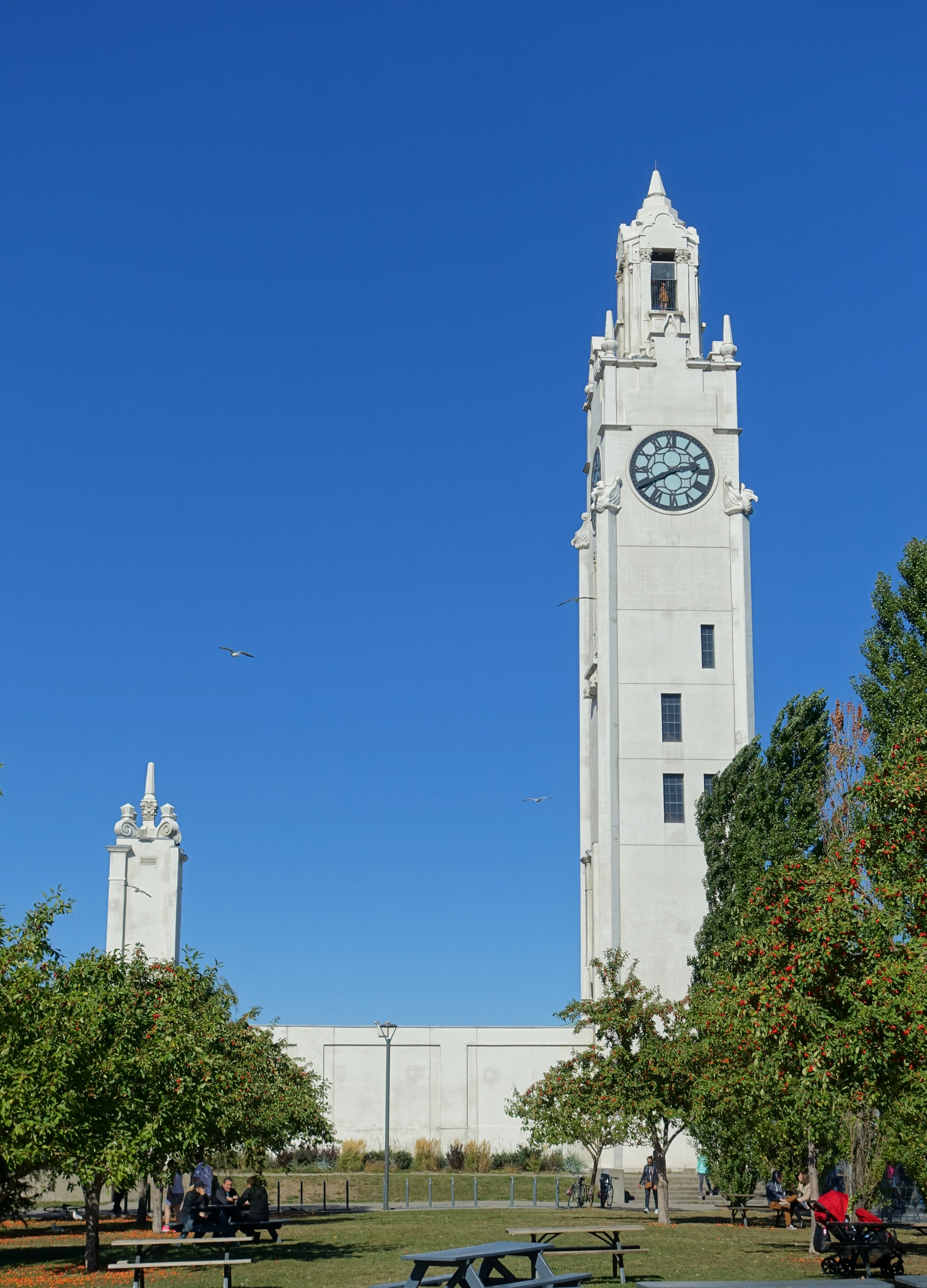 Montreal Clock Tower - Montreal, Quebec, Canada.